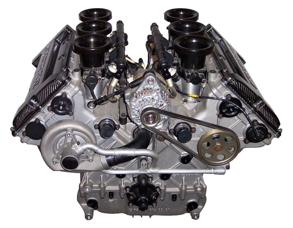 Mercedes V6 Rennmotor from the DTM, 1996, transparent background